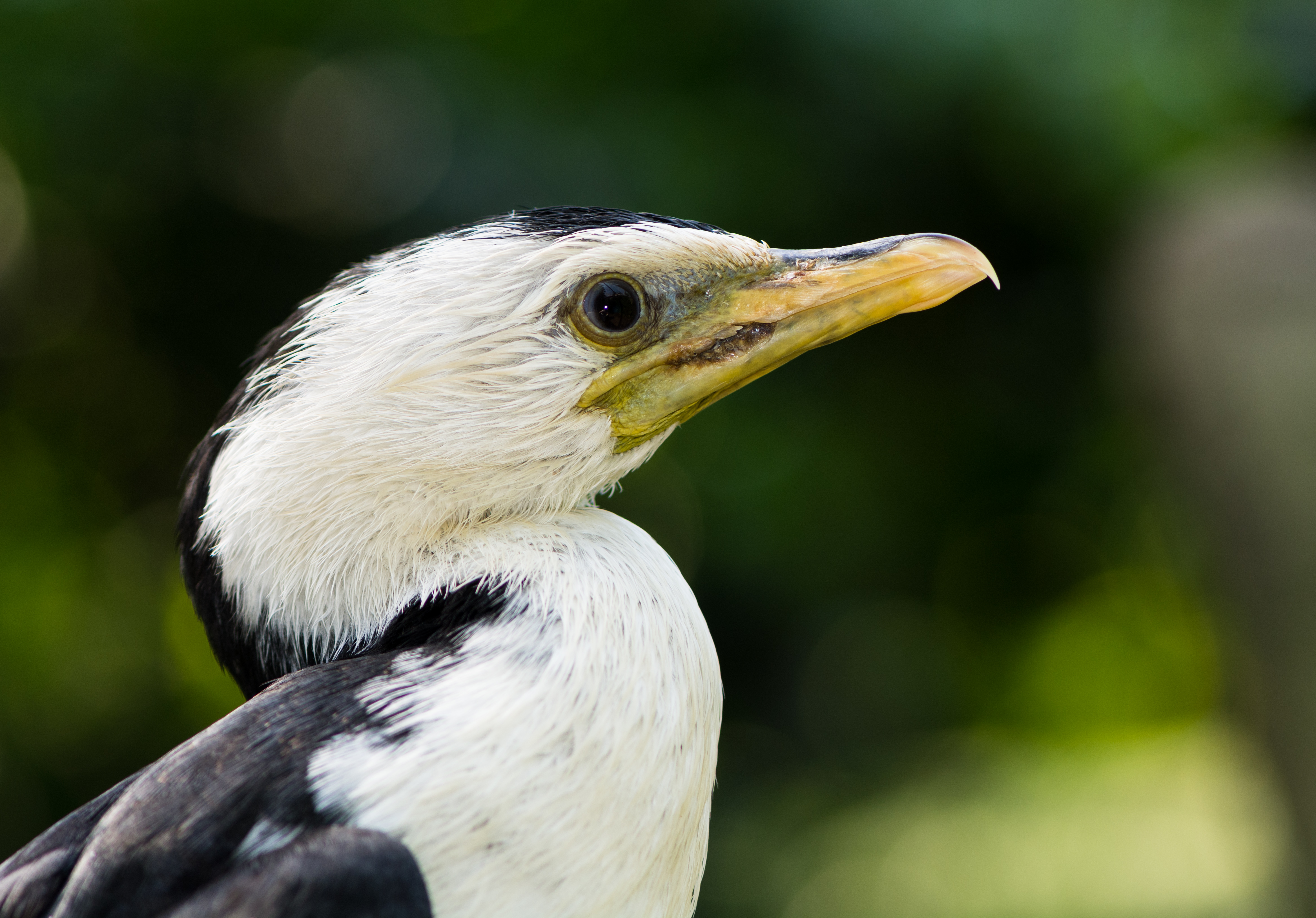 Head shot of Little pied cormorant (Phalacrocorax melanoleucos)